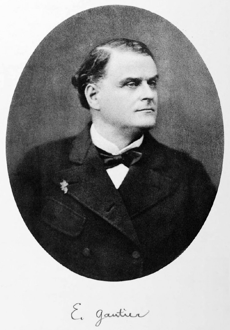 Eugène Gautier (1822–1878), French composer of opéras comiques